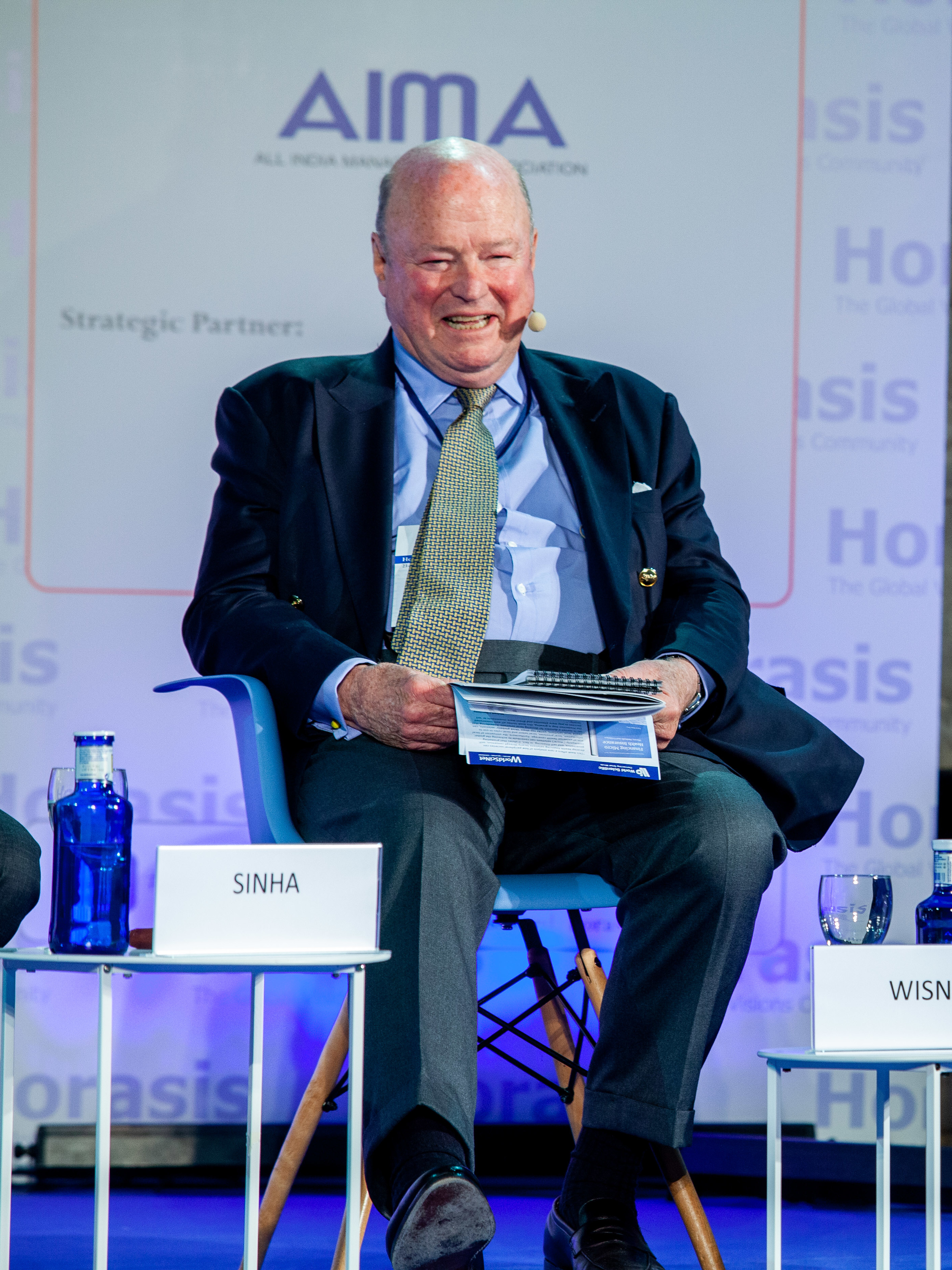 Frank G. Wisner, Under Secretary of State (ret.), USA. Horasis India Meeting, Segovia, 23-24 June 2019